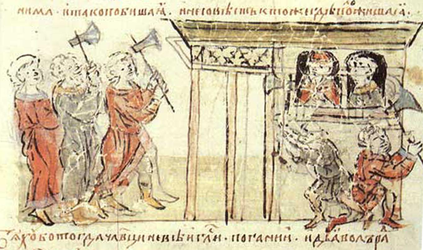 Murder of Martirs Theodor the Varyag and His Son Joann